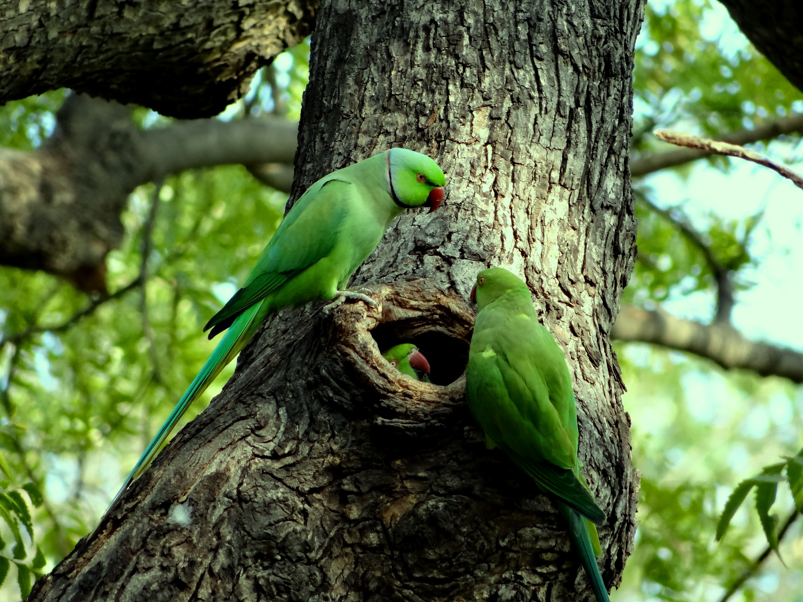 Rose Ringed Parakeet feeding their young in Lodhi Garden, New Delhi.